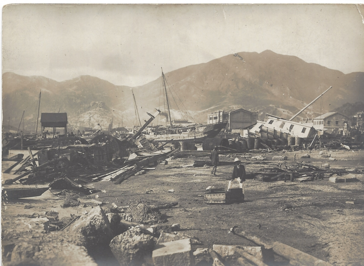 1906 Hong Kong typhoon damage.